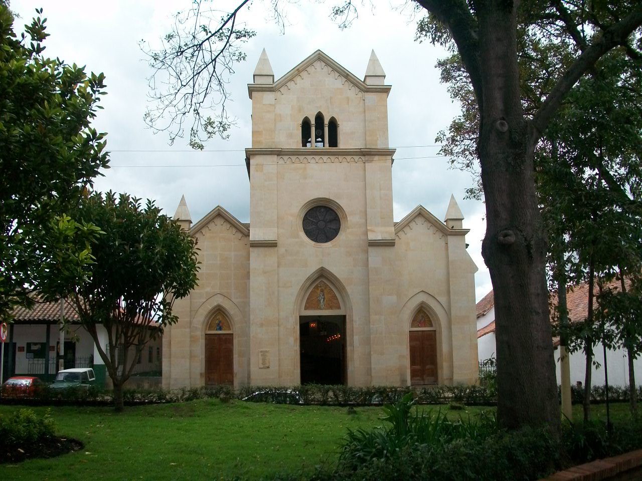 IGLESIA DE TENJO